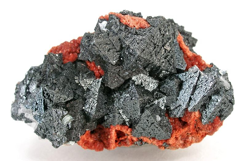 Hausmannite, Andradite Locality: Wessels Mine (Wessel's Mine), Hotazel, Kalahari manganese fields, Northern Cape Province, South Africa (Locality at ) Sharp, lustrous,jet-black hausmannite crystals to 1.5 cm perched on a stunningly contrasting matrix of garnet! Beautiful, rich specimen that is both significant for the species and displays phenomenally. 6.6 x 4.1 x 3.7 cm